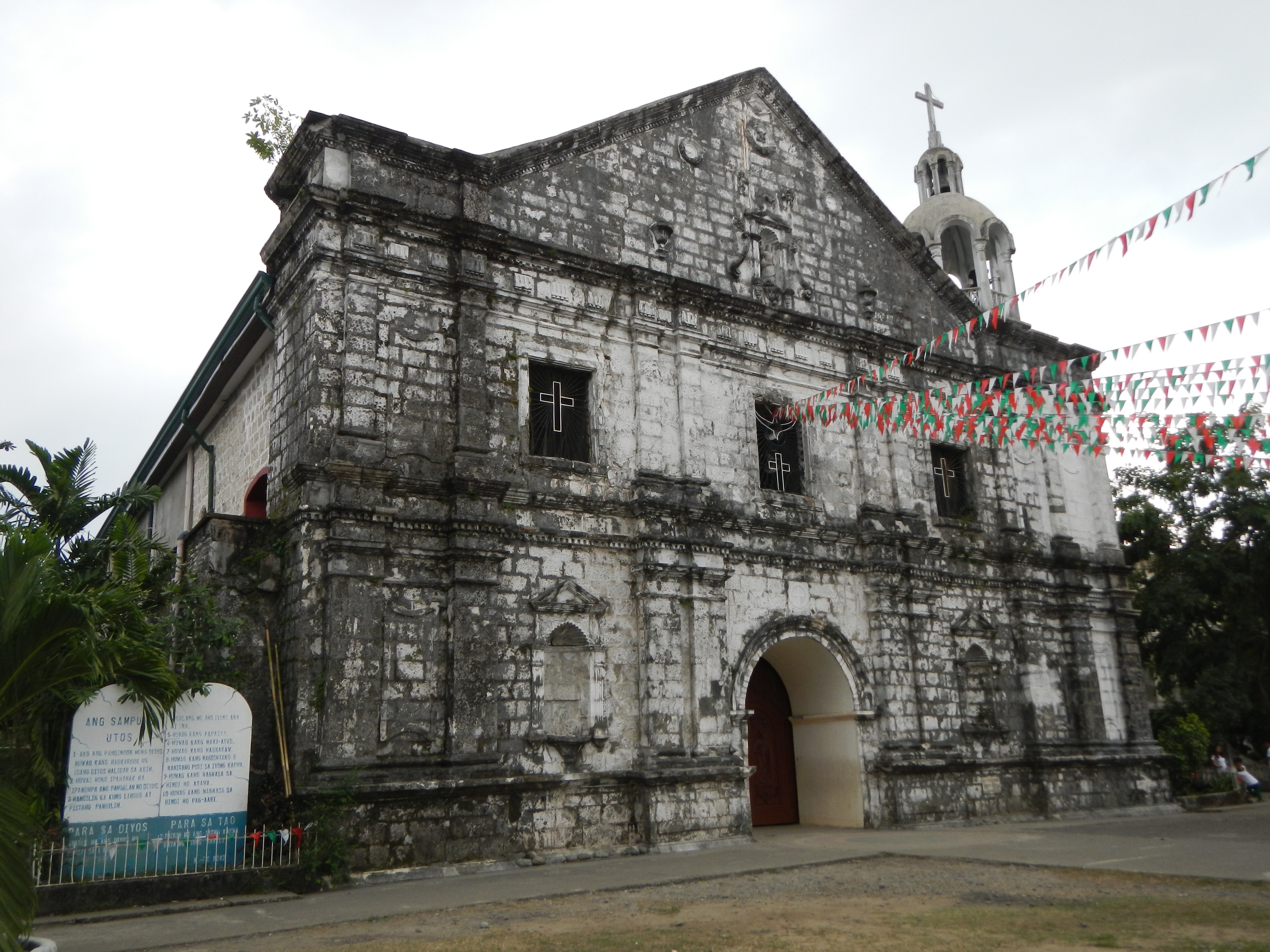 Upload Wizard photos of - Masinloc, Zambales[1] Town Proper: (a first class municipality in the province of Zambales,[2] Philippines - politically subdivided into 13 barangays - .subject of the Scarborough Shoal standoff [3]) - The Parish Church of San Andres of Masinloc, Zambales is 1 of the Baroque Churches of the Philippines [4] registered as No. 19, and declared on July 31, 2001 as National Cultural Treasures by the National Museum of the Philippines under RA 8492 [5] - built in the 18th-19th centuries by the Augustinian Recollects hit by a recent earthquake doorway from the choirloft is carved and polychromed and after the facade, the most unique feature of the church - located in Poblacion where the San Andres School of Masinloc, Inc., the Masinloc Mall, in front of the Town Plaza, Grandstand, stand very near the Old Masinloc Town Hall in front of the sea shores, deep sees and Masinloc Baywalk, where the Public Market sits beside - the San Andres Church belongs to the Roman Catholic Diocese of Iba in Zambales.